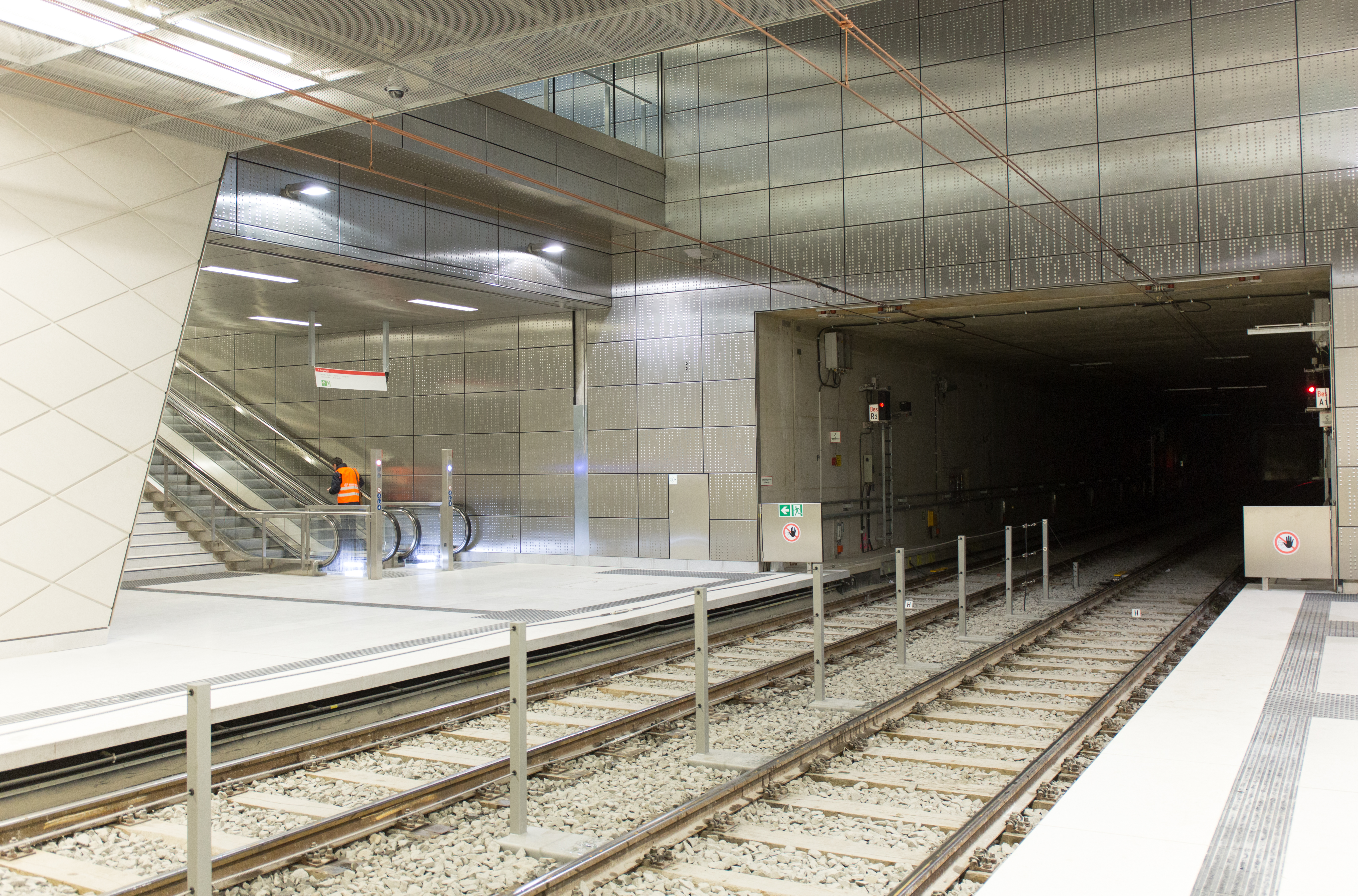 Wehrhahnlinie, U-Bahnhof Benrather Straße